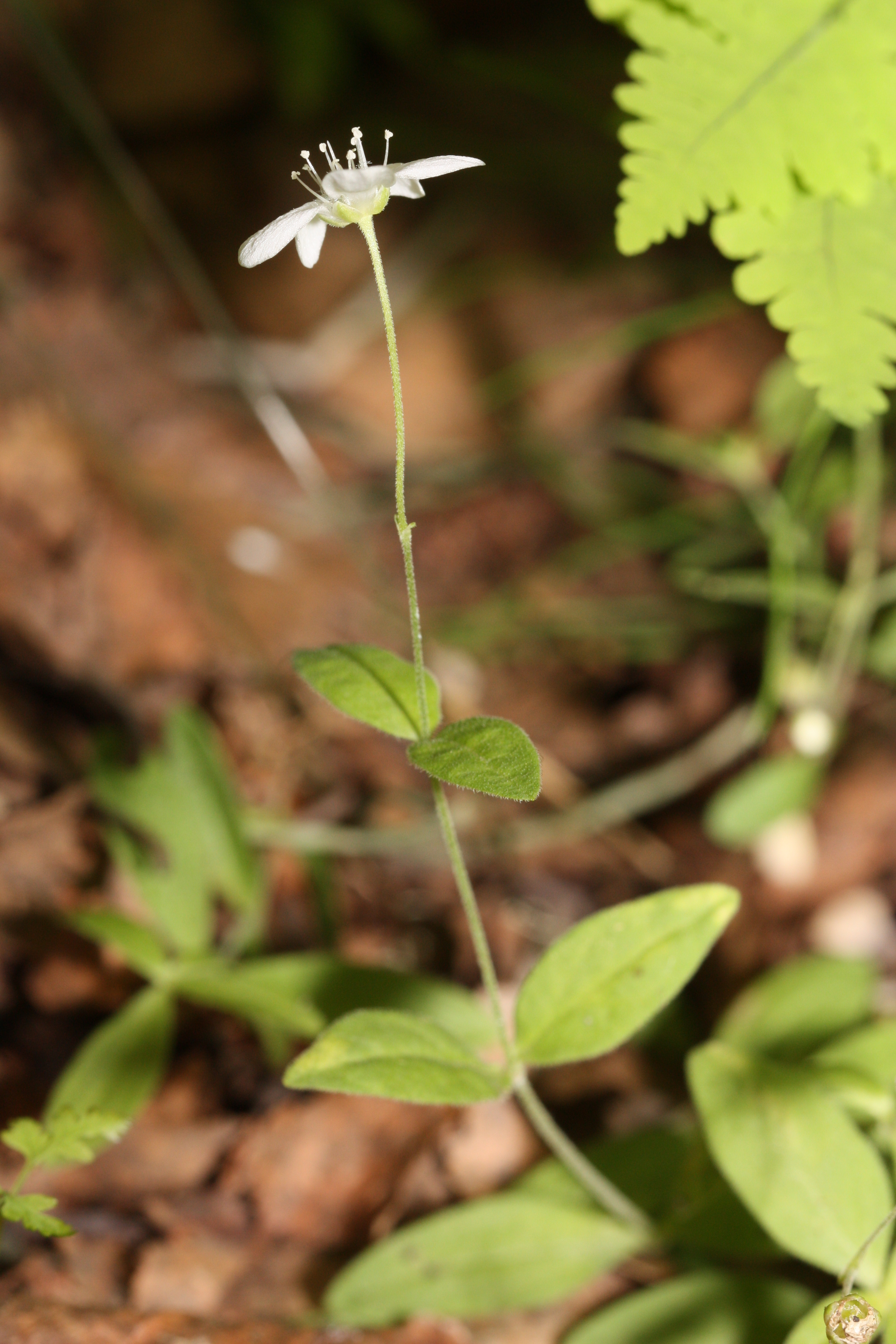 Grove or Blunt-leaf Sandwort